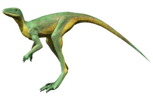 Life reconstruction of Lagerpeton chanarensis